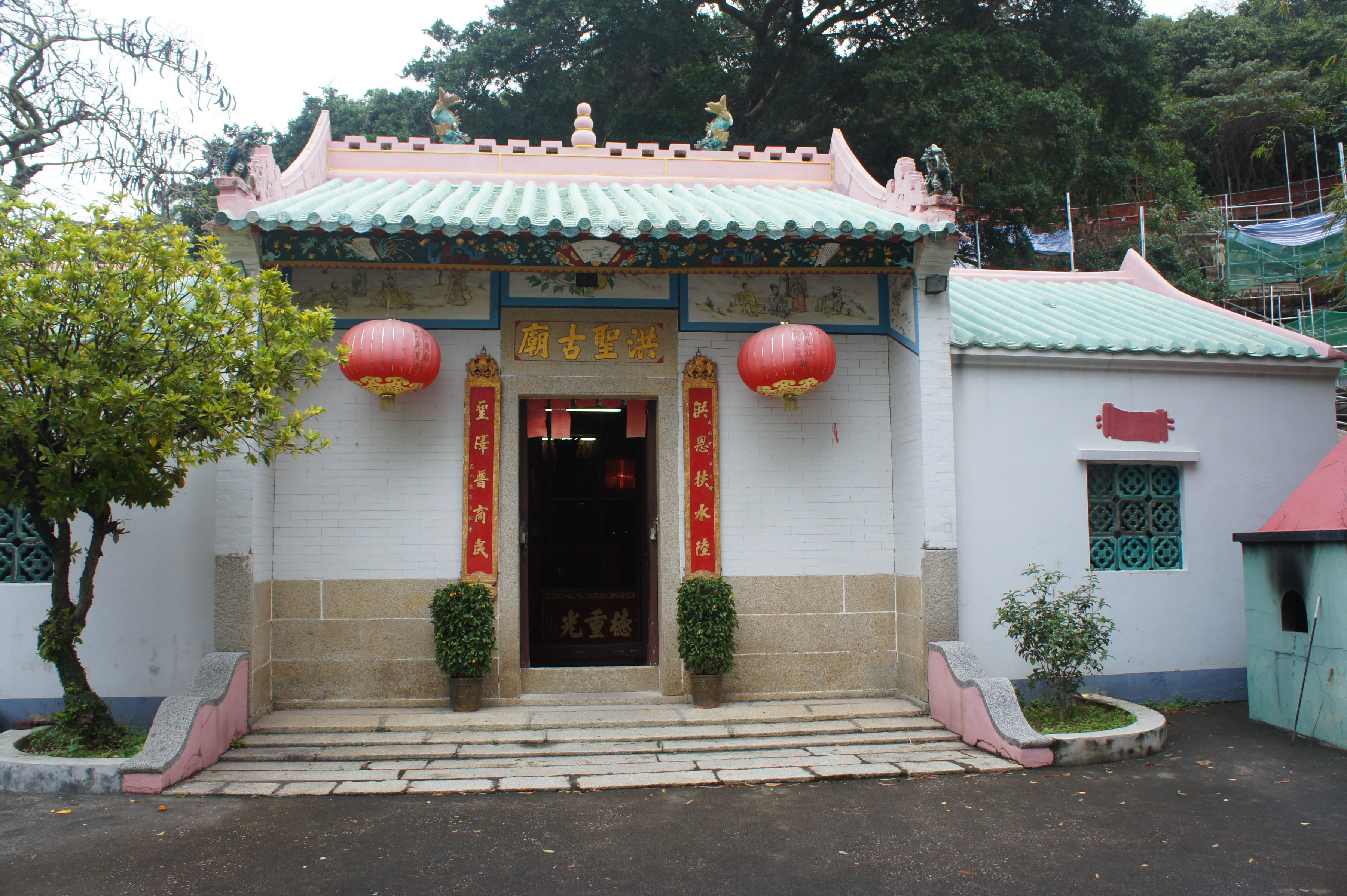 Tai O Hung Shing Temple, Lantau Island, Hong Kong.